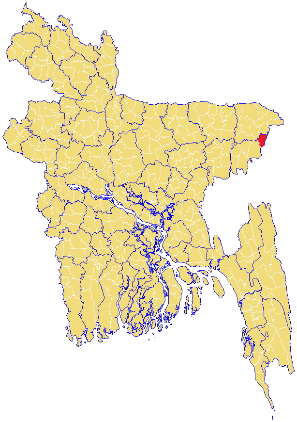 Map of Barlekha Upazila in Maulvibazar District, Sylhet Division, Bangladesh